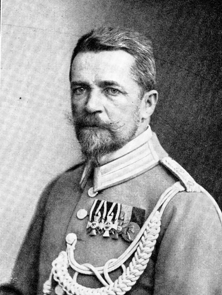 Lieutenant colonel Joachim von Heydebreck (1861-1914) round about 1912.